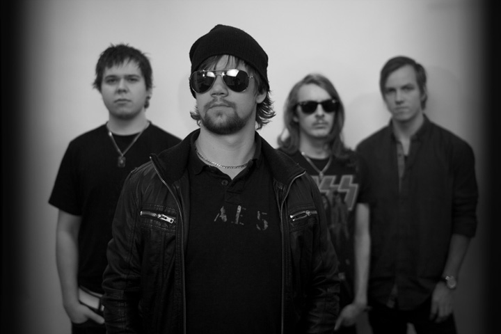 Tonic Breed: Mats Johansen, Patrik Svendsen, Rudi Golimo, Thomas Koksvik